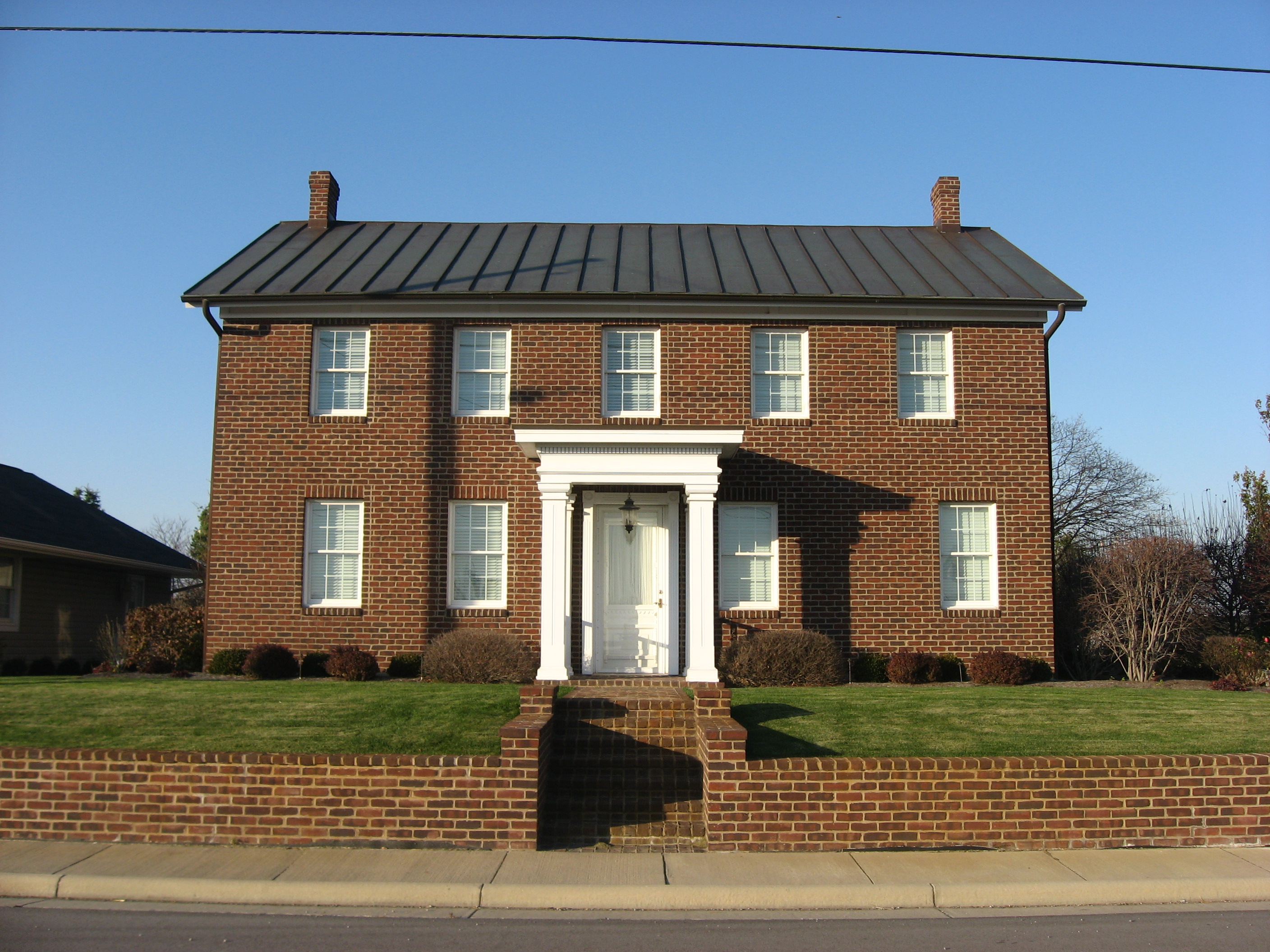 Front of the Matthias Gast House, located along State Route 119 in the unincorporated community of Maria Stein in Marion Township, Mercer County, Ohio, United States. Built in 1852, the house and its adjacent general store (now destroyed) are listed together on the National Register of Historic Places.